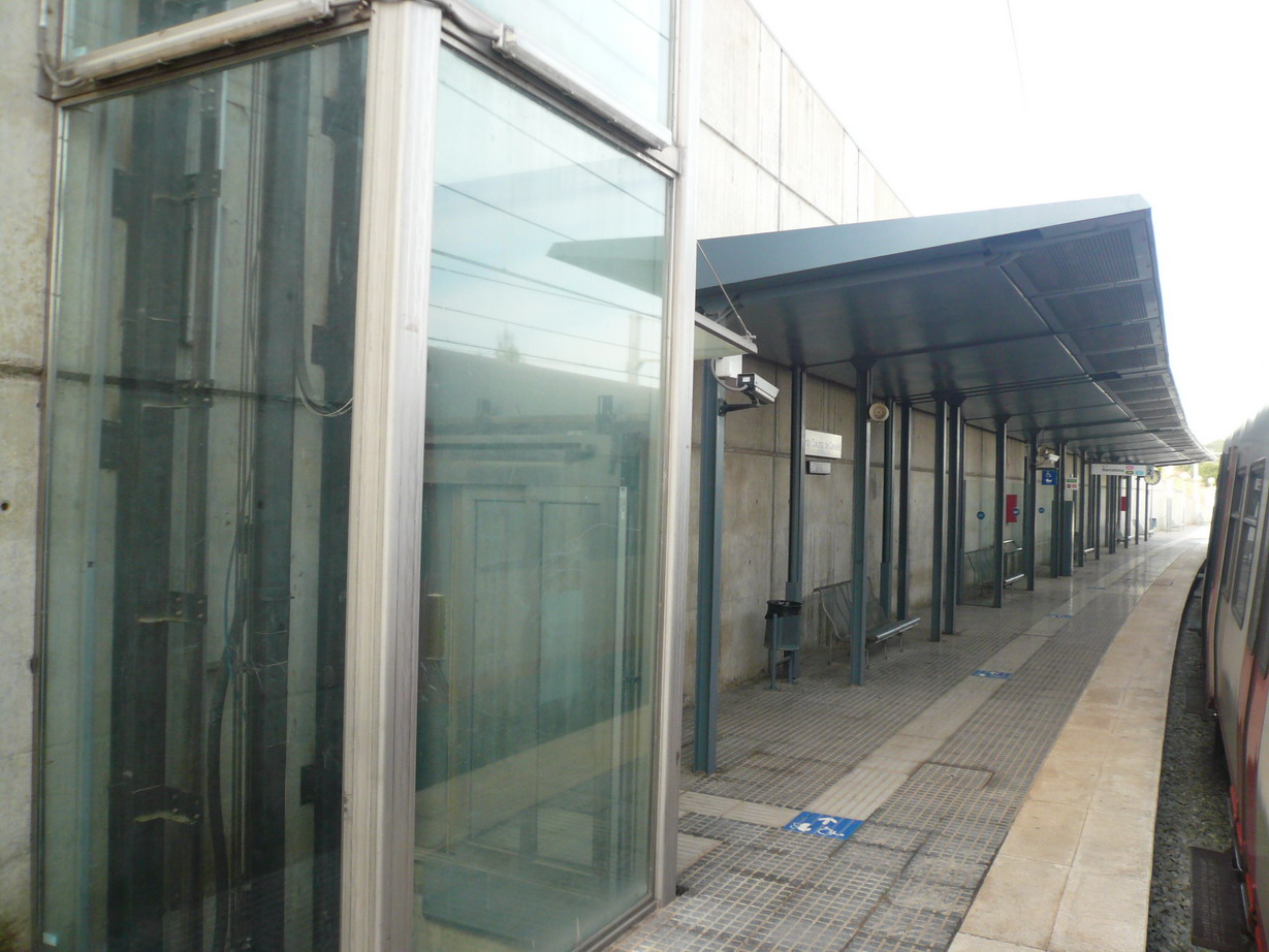 Santa Coloma de Cervelló station